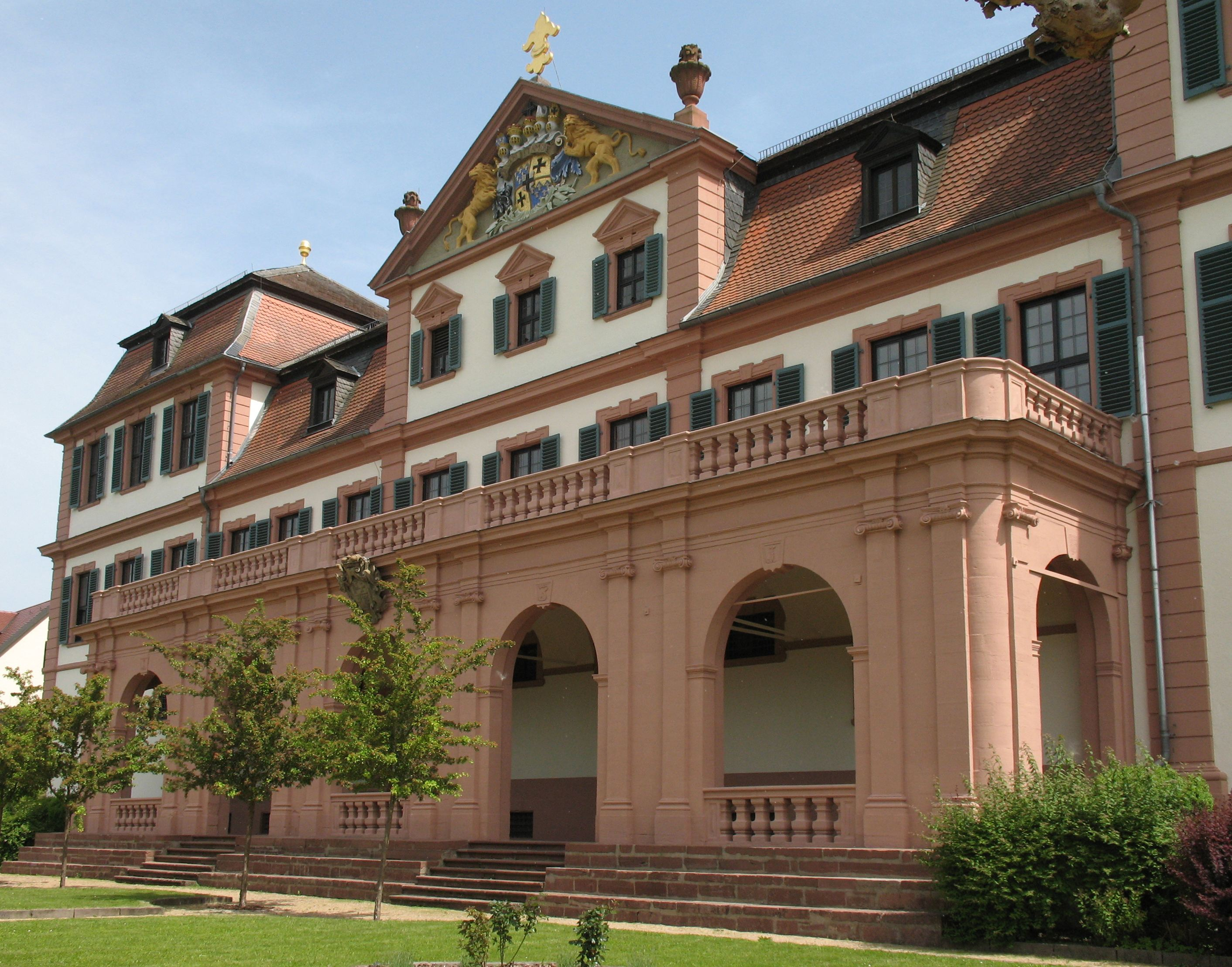 "Kellereischloss" in Hammelburg in Bavaria, Germany